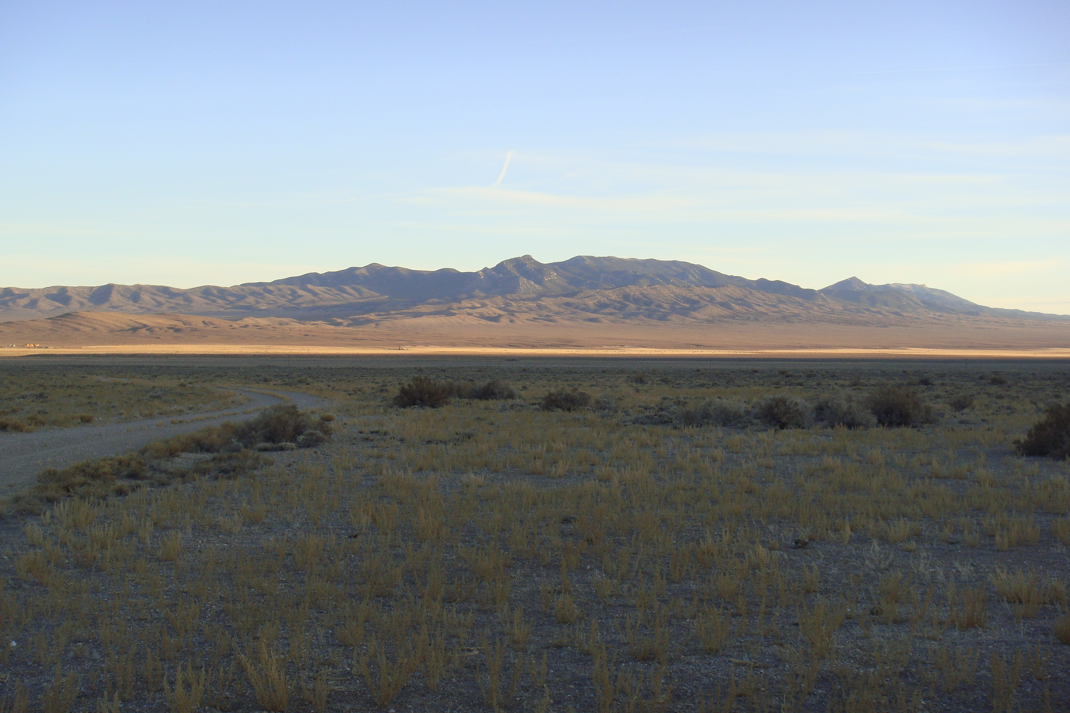 View of the Mountain Home Range from the northwest-(photo from southeast Snake Range region-(Nevada) at sunset-(and Wah Wah Mountains on horizon). (A complex photo, taken from southeast Snake Range foothill region, in Nevada.) The northern section of the Wah Wah Mounains are beyond a north section of the Mountain Home Range, (probably, Mountain Home Pass, at photo-right-border, and the 9-mi long north section(Utah DeLorme Atlas)). (The Burbank Hills are off-photo, at photo left.). The view overlooks the north end of Hamlin Valley-(north section in Nevada); the Mountain Home Range is in foreground, center & right. On horizon, is a north section of the Wah Wah Mountains, (about 20-mi of the total 60-mi length, (and 30-mi distant)). (The Mountain Home Range in foreground is about 7-mi distant, across Hamlin Valley.) (Using Utah (& Nevada) DeLorme Atlases)